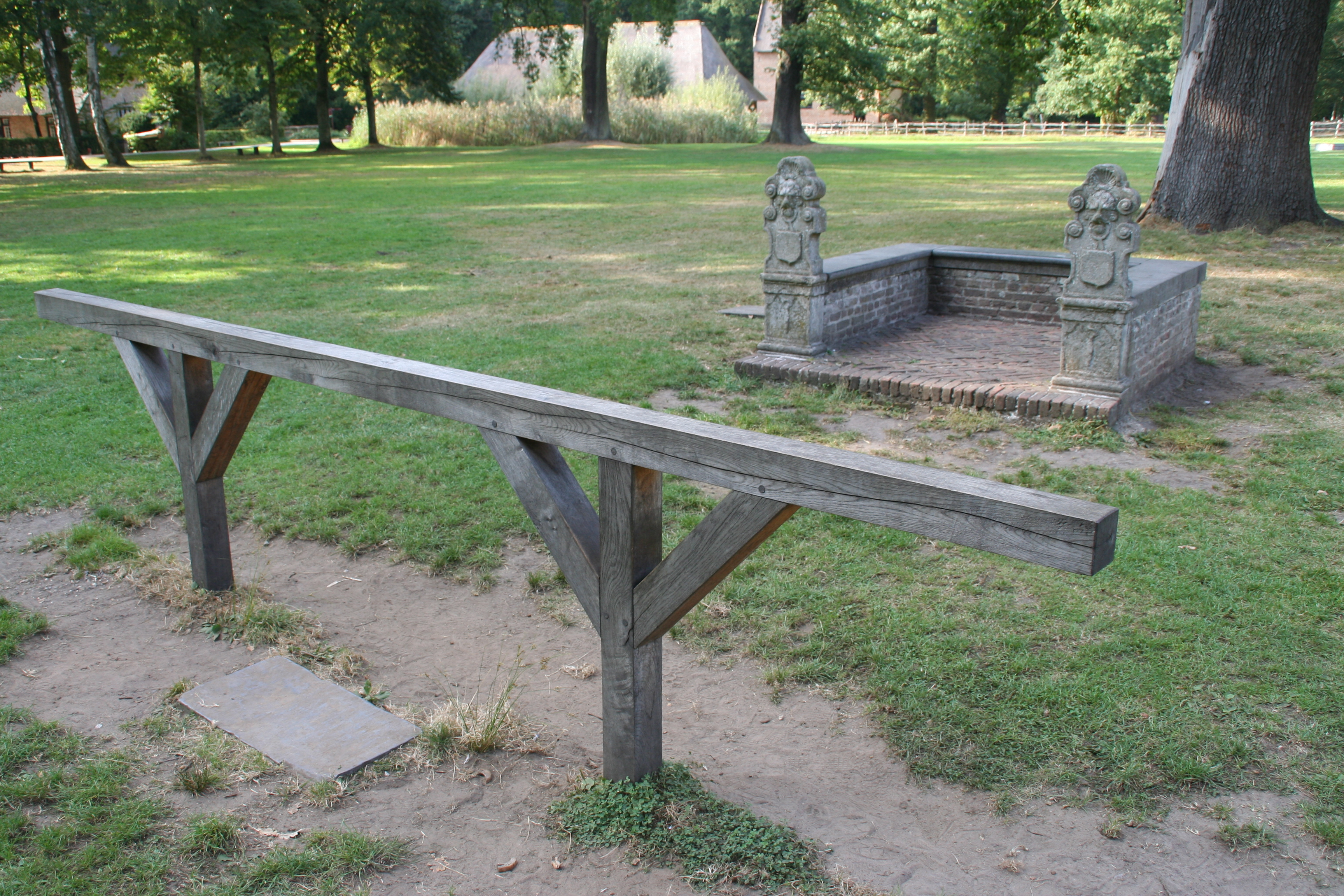 Pre-1789 law court in Belgium: the wooden stand in the foreground is the accused's bar while the stone seat in the rear is the magistrate's bench. Reproduction of the Groene Vierschaar from Bevere (Oudenaarde) in the Bokrijk open-air museum.